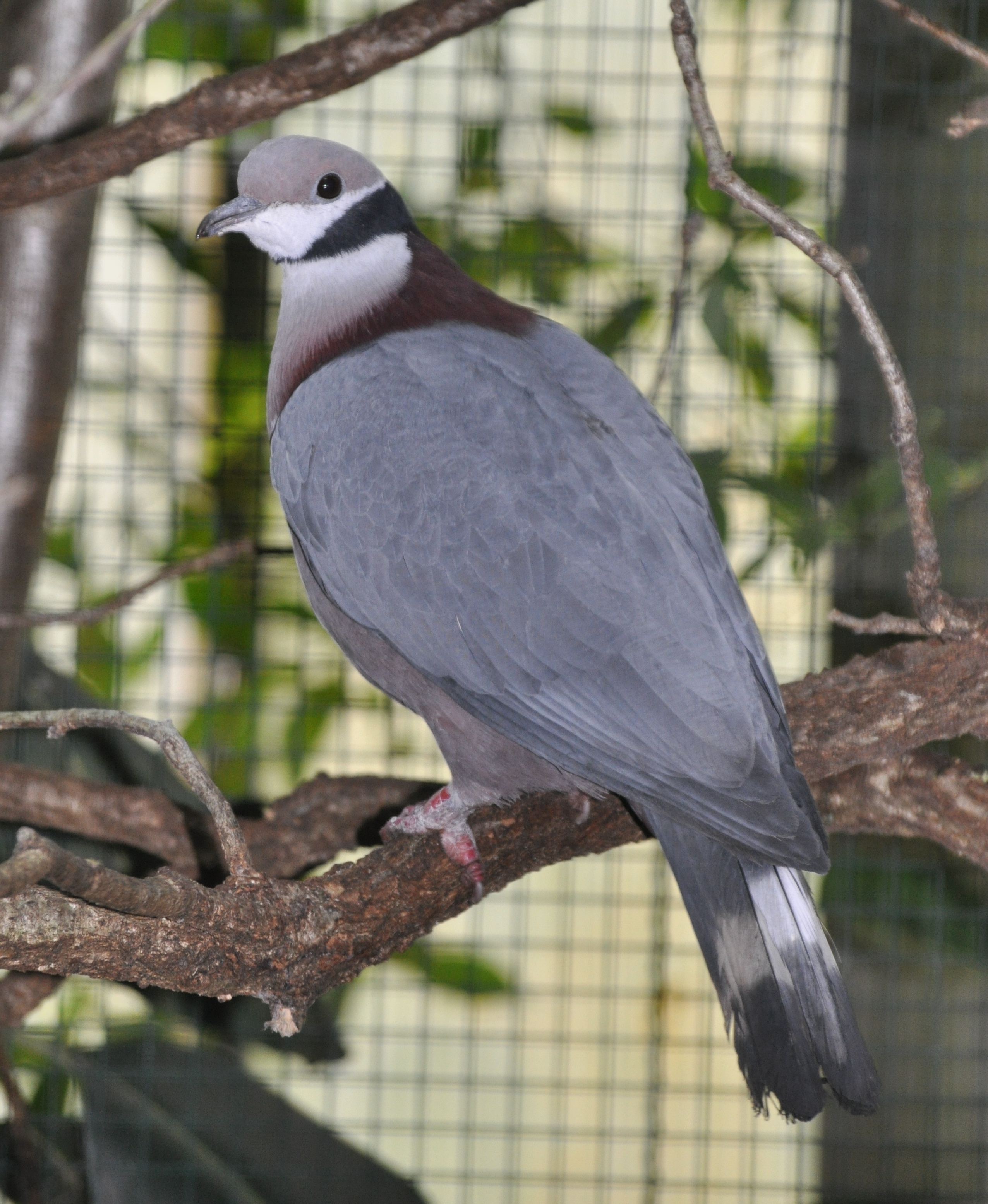 Collared Imperial Pigeon (Ducula mullerii mullerii) in the Walsrode Bird Park, Germany.